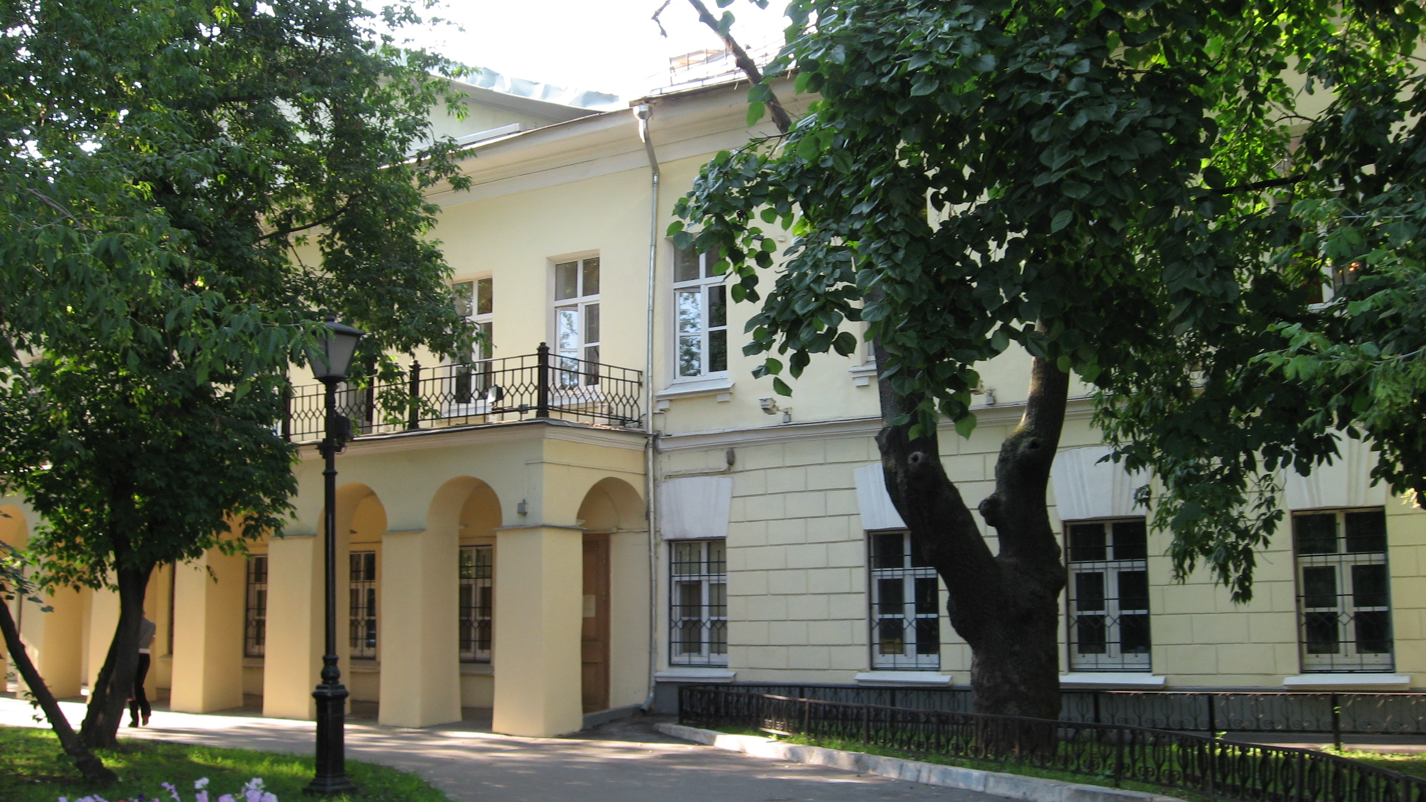 The house where Nikolay Gogol died in Moscow (Nikitsky Boulevard, 7). The building has been erected by 1752, burnt down in 1812 and was rebuilt to its present-day appearance in 1820s.